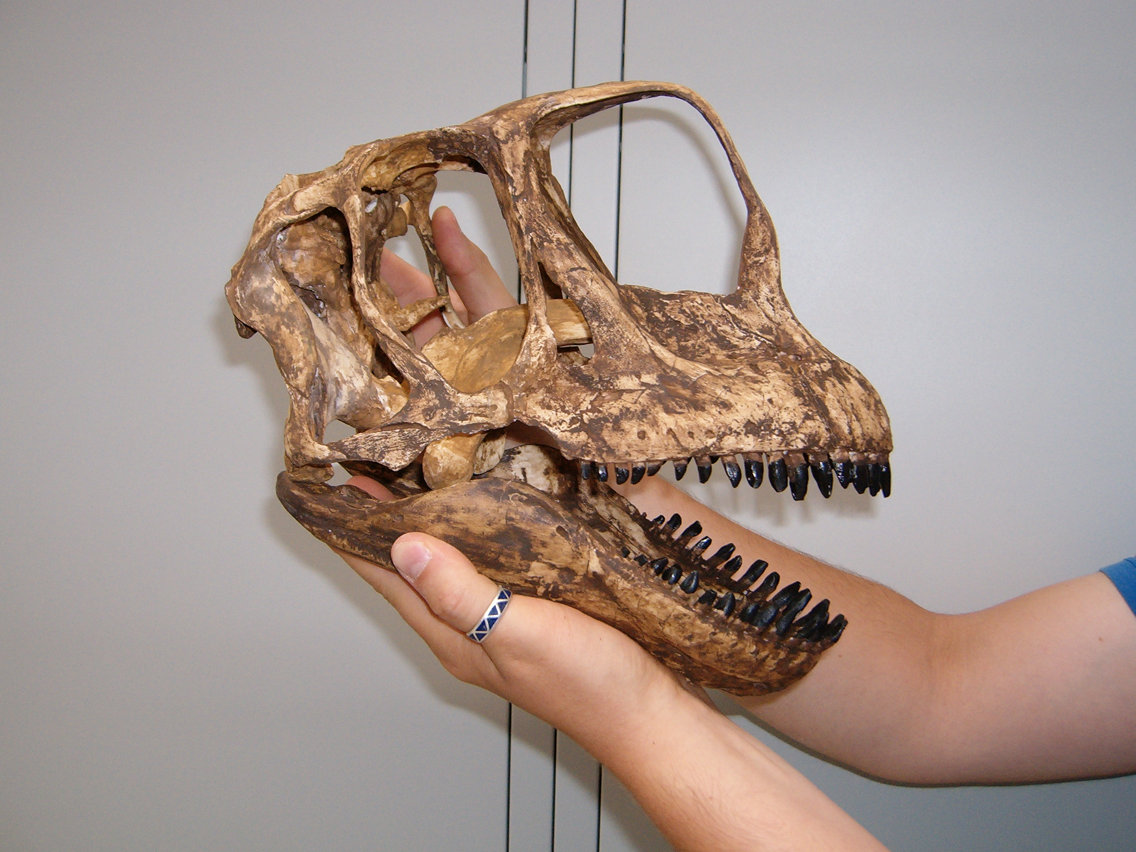 Skull of Europasaurus holgeri.